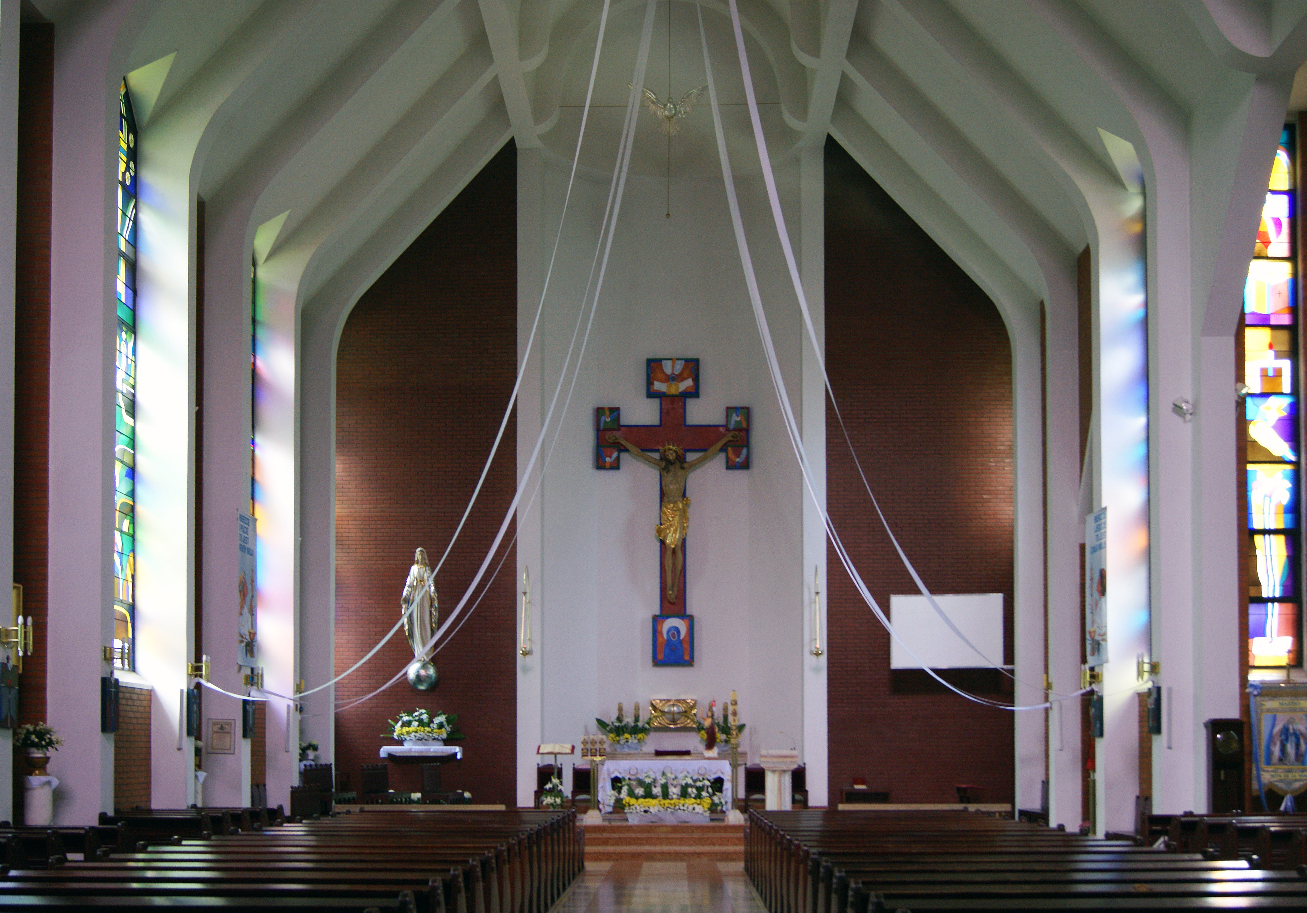 Church of Blessed Aniela Salawa (interior), 29 Kijowska street, Krakow, Poland